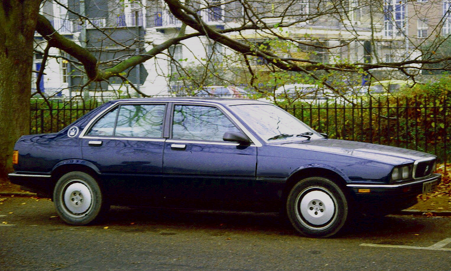 Maserati 422, retouched Version of File:Maserati 422.jpg